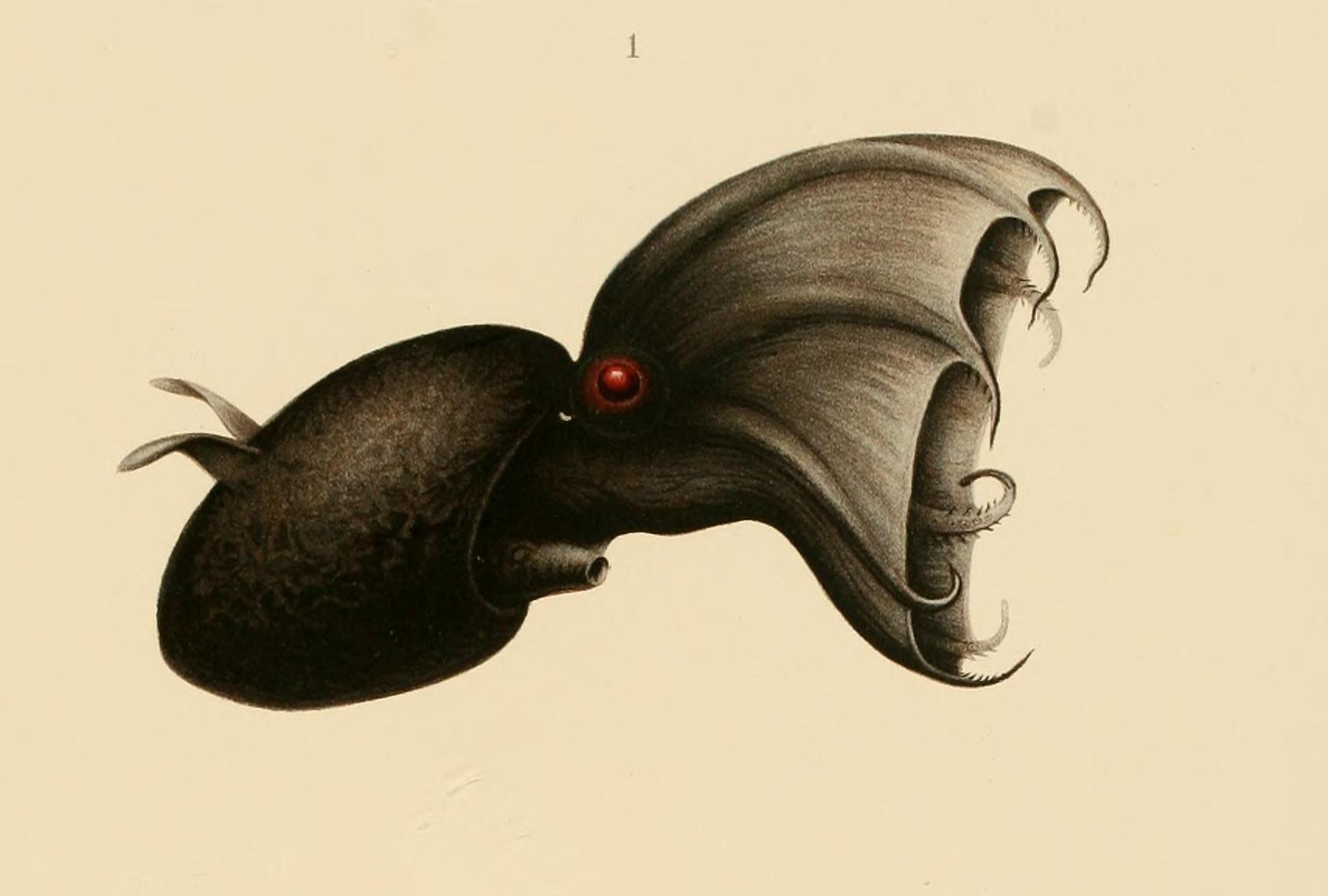 Vampyroteuthis infernalis